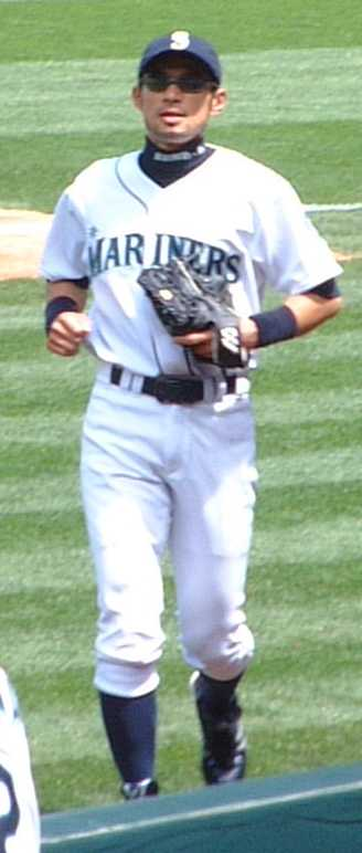 Ichiro Suzuki of the Mariners running back from the right field to prepare for the bat.